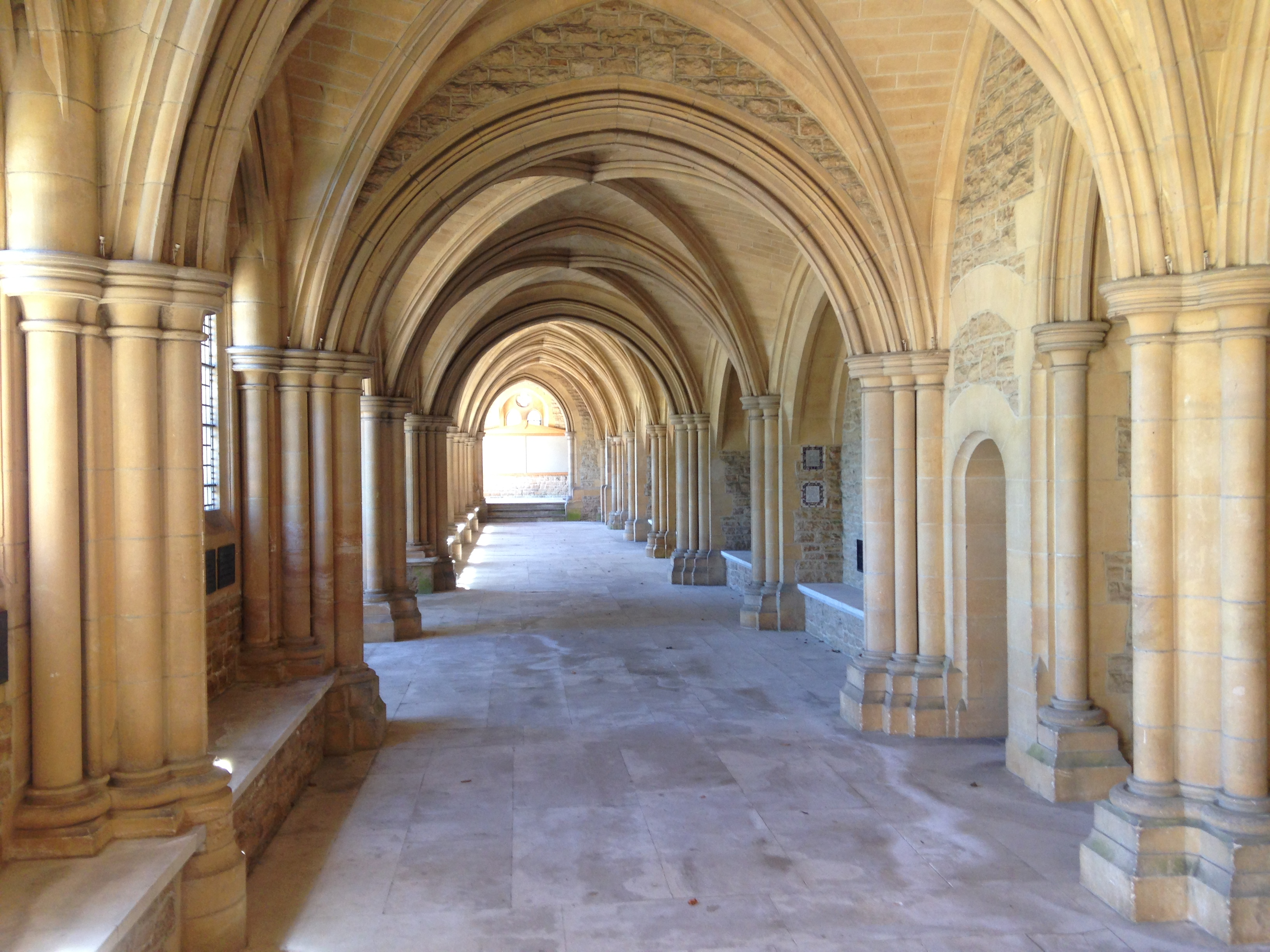 South African Cloisters, Charterhouse School